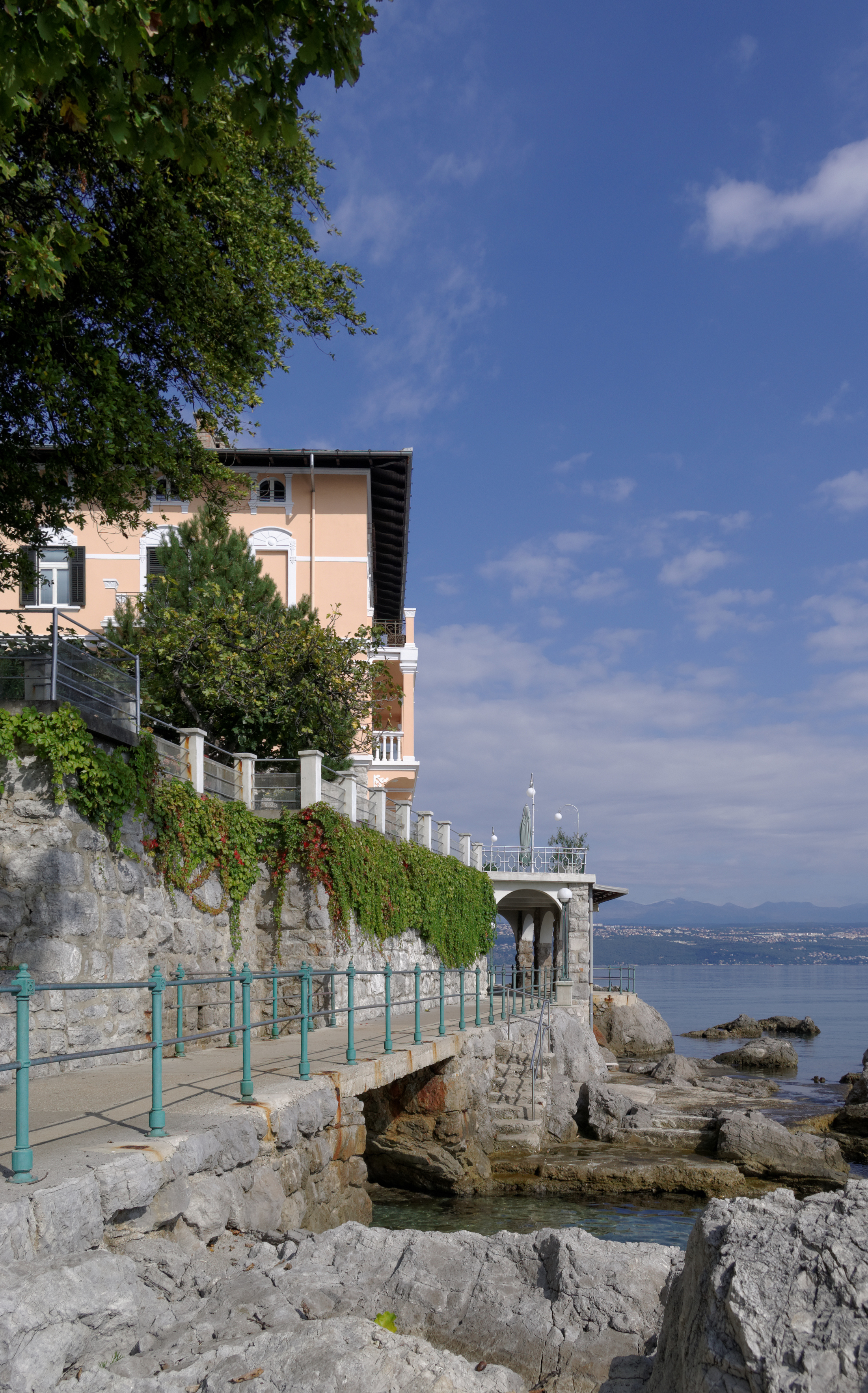 Croatia, Opatija, Lungomare